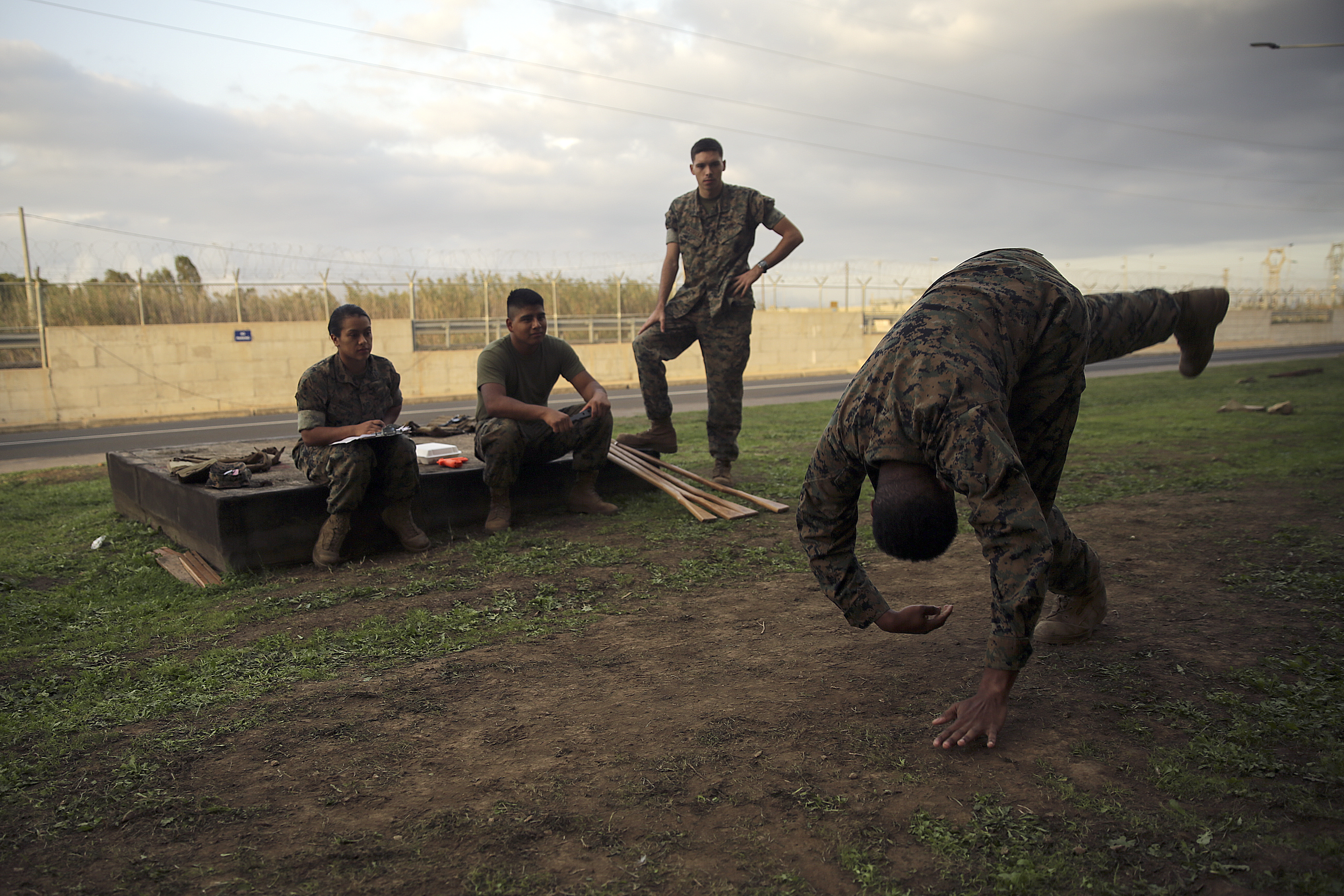 Cpl. David Hart, an ammunition chief with Special Purpose Marine Air-Ground Task Force Crisis Response-Africa, executes a shoulder roll at Naval Air Station Sigonella, Italy, Oct. 13, 2016. Marines with SPMAGTF-CR-AF completed a three-week long brown belt course for the Marine Corps Martial Arts Program. (U.S. Marine Corps photo by Cpl. Alexander Mitchell/released) Unit: Navy Media Content Services